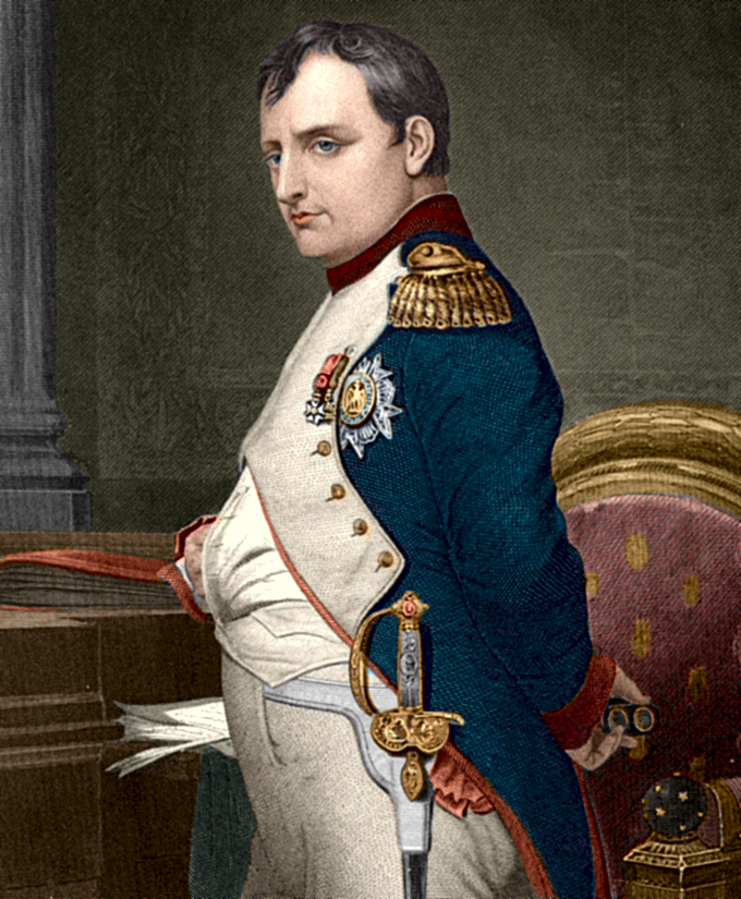 Napoleon Bonaparte Coloured by uploader